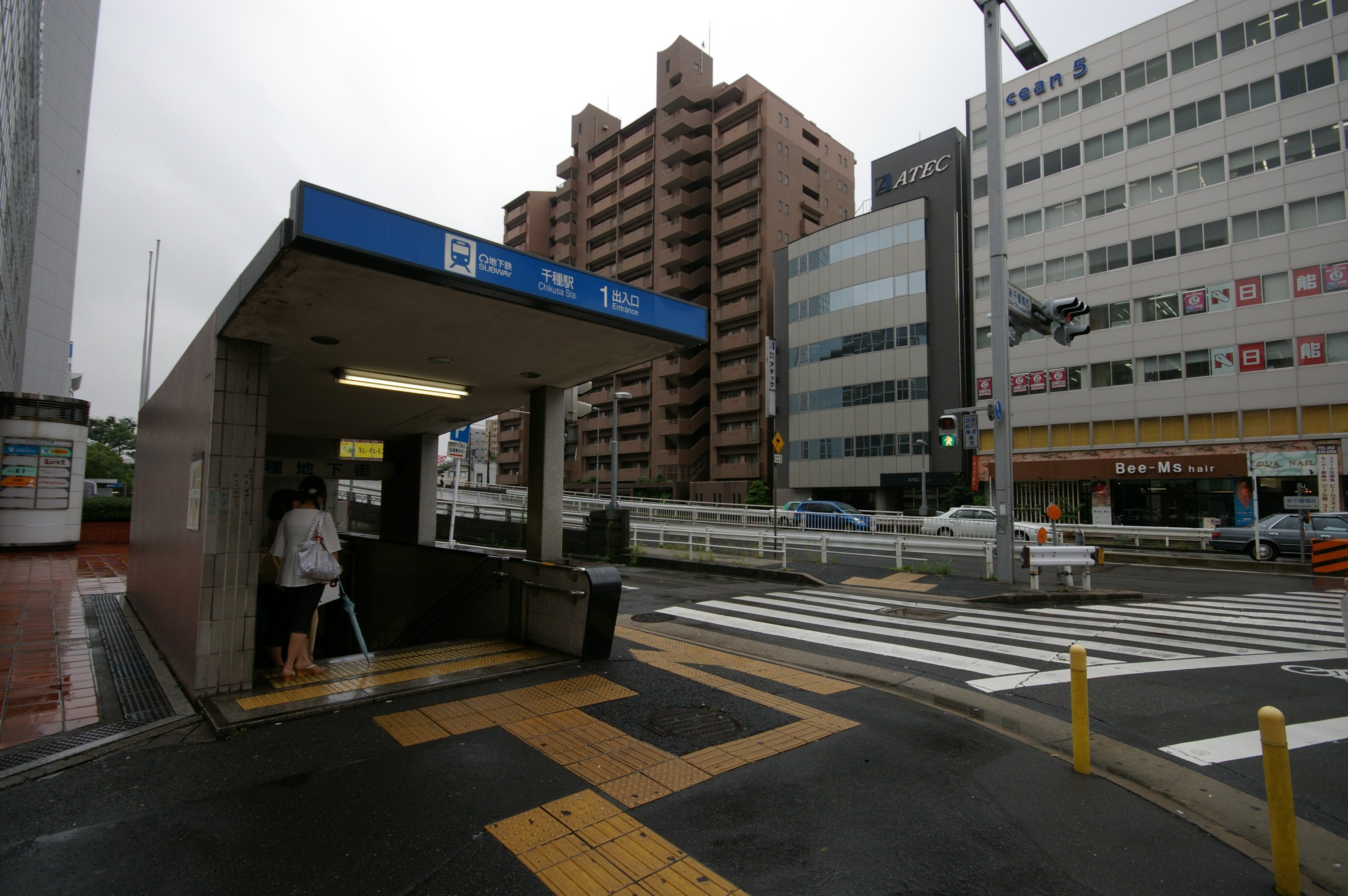 Chikusa station, Nagoya, Japan